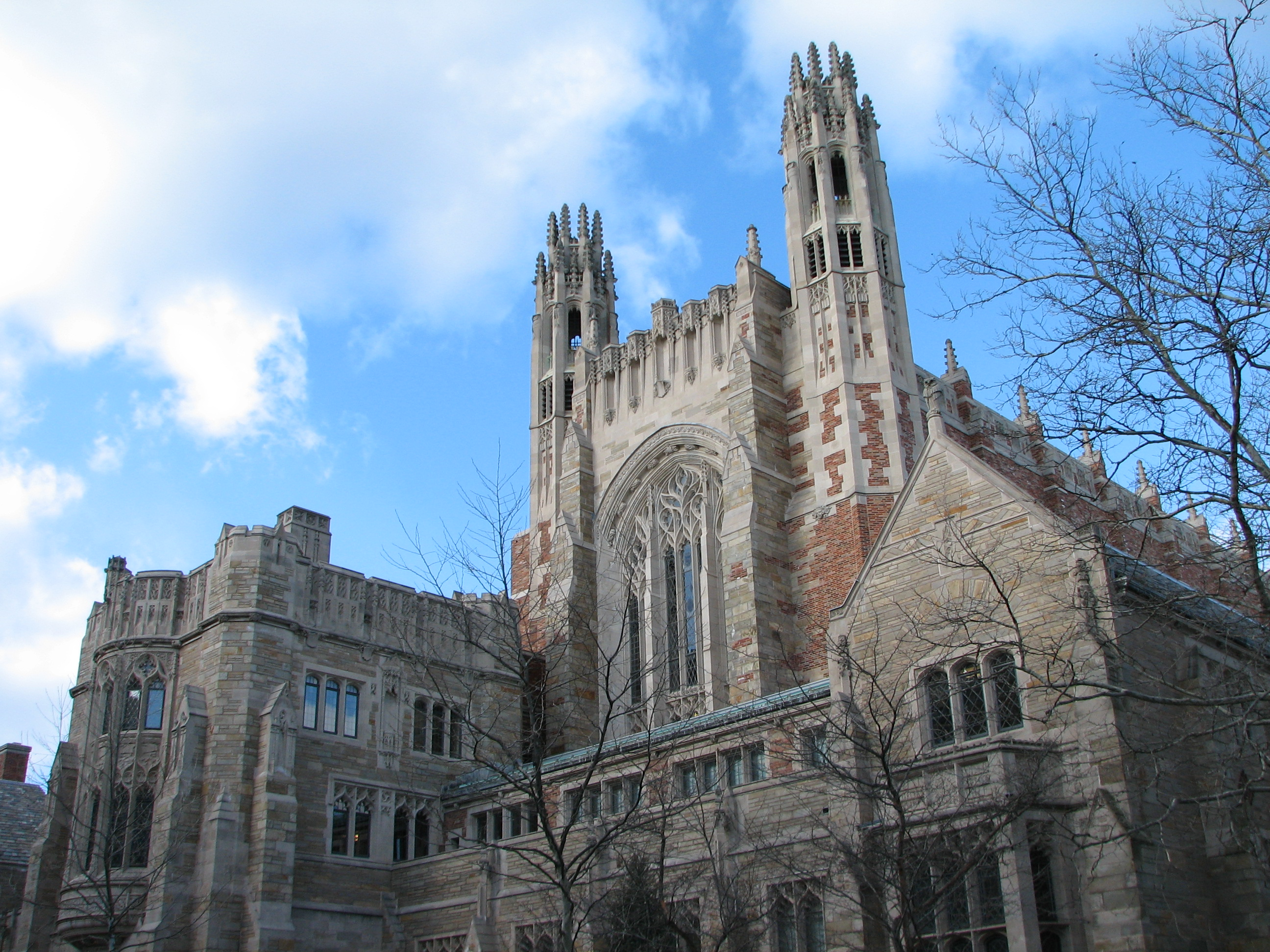 The Sterling Law Building of the Yale Law School.